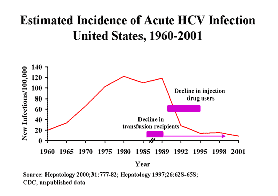 Hepatitis C: Slide Set: 1 | CDC Viral Hepatitis